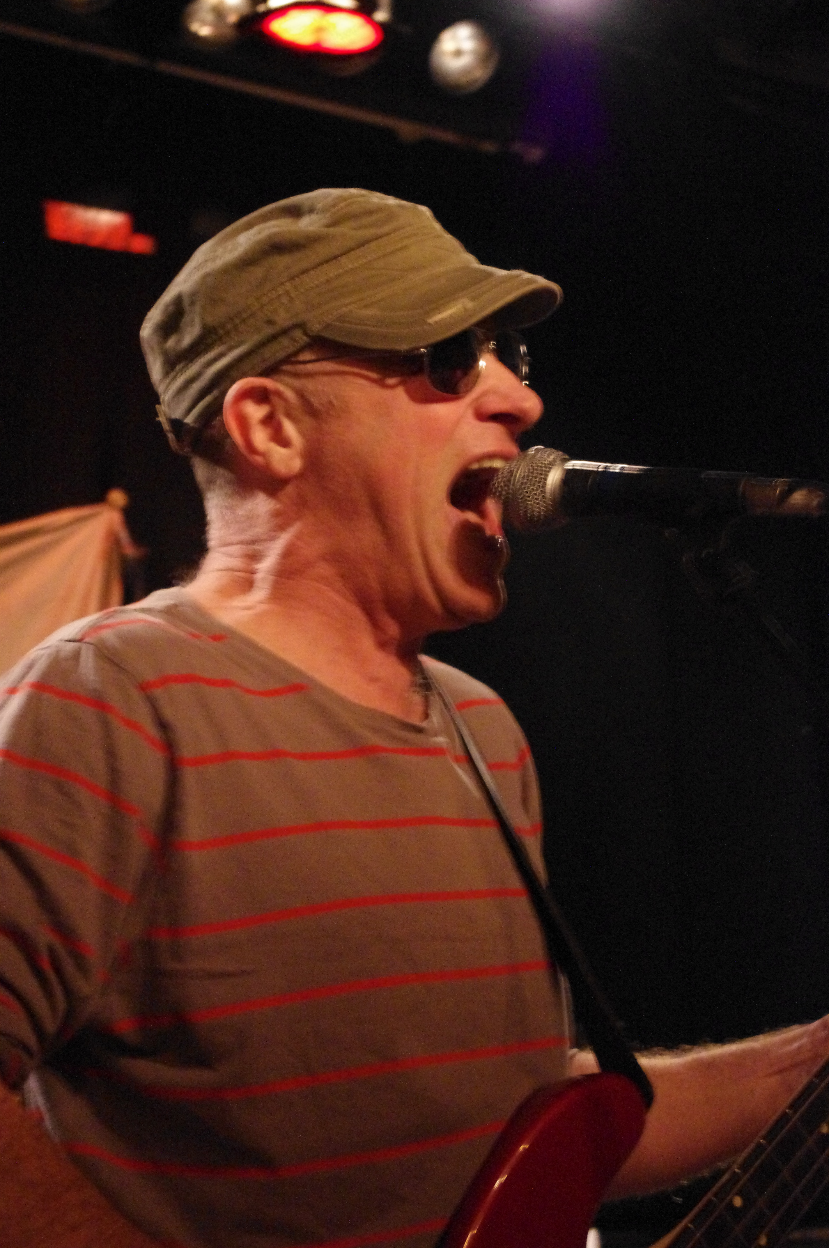 Stefan Enger with Köttgrottorna at Kafé 44. 13 Dec 2011.